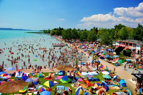 Balatonfured beach